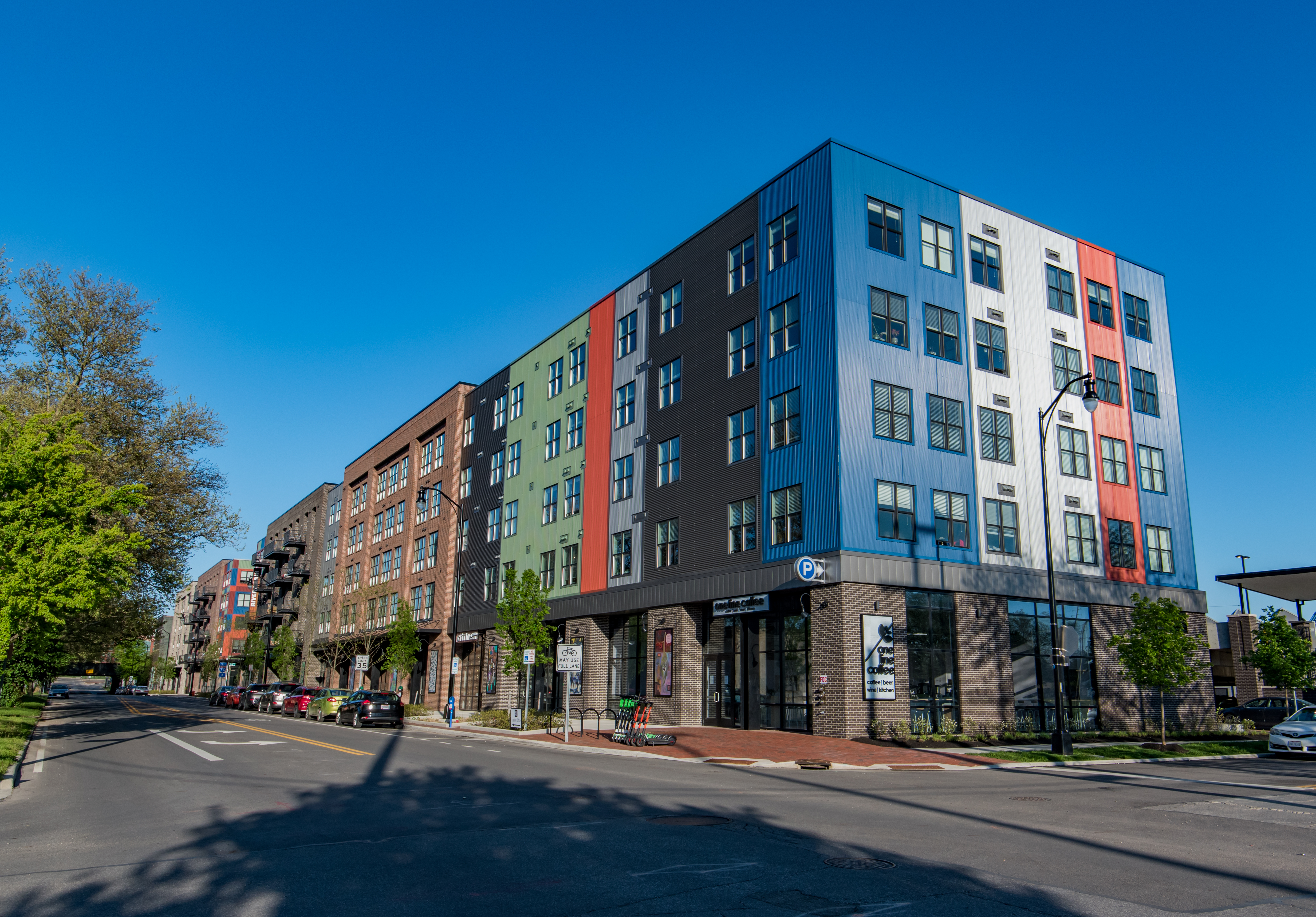 In Columbus, Ohio.